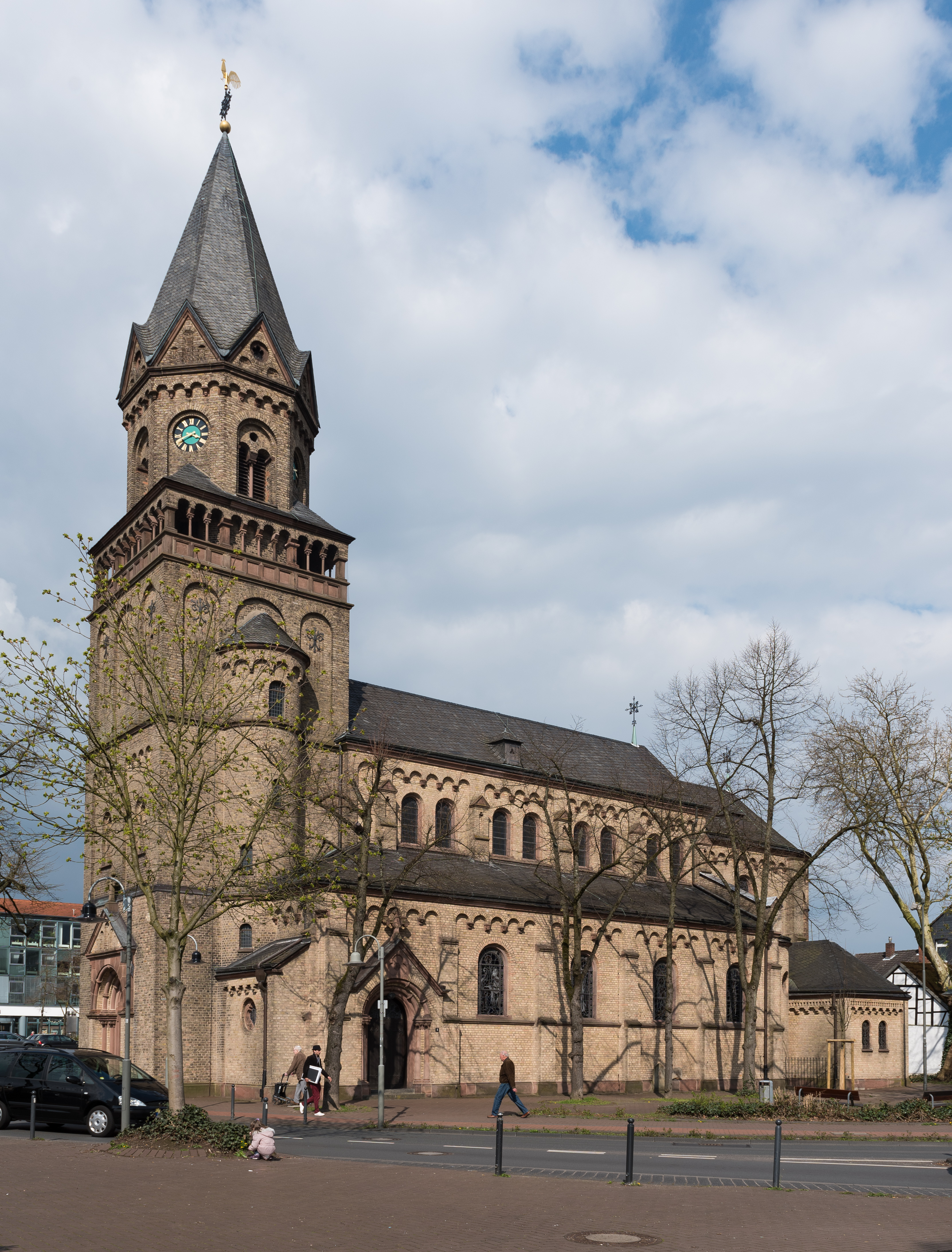 Church St. Anna in Ratingen-Lintdorf